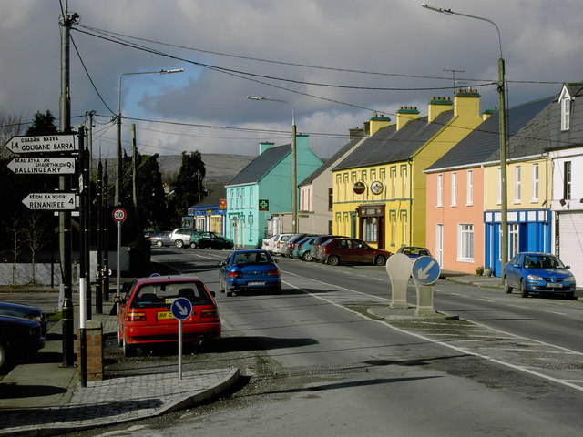 Baile Mhic Ire (Ballymakeera), Main Street, near to Baile Mhic Ire and Baile Bhuirne, Cork, Ireland. Looking North-West along the N22 National Route. This road carries heavy holiday traffic at times, between Cork City and Killarney.